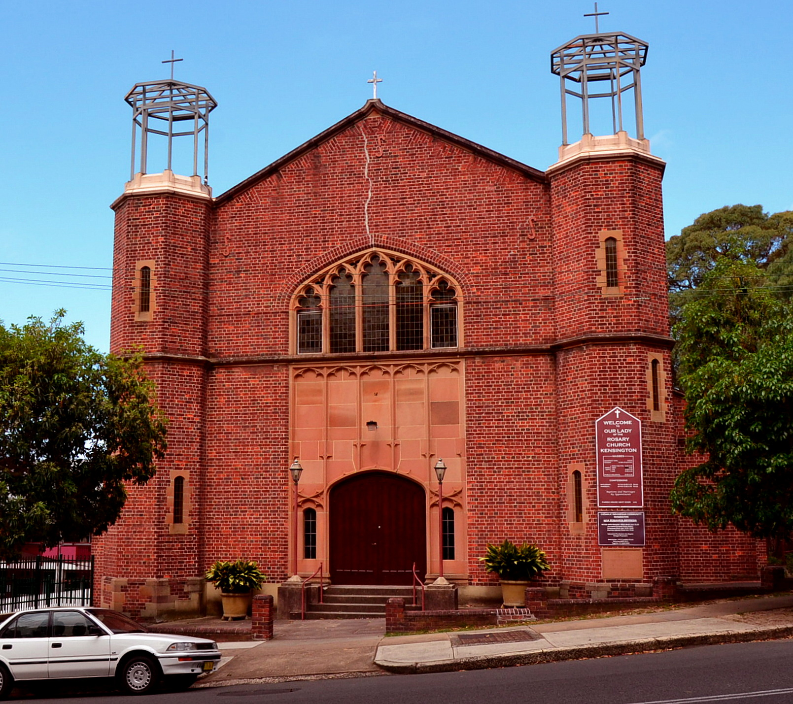 Our Lady of the Rosary Church, Kensington, Sydney